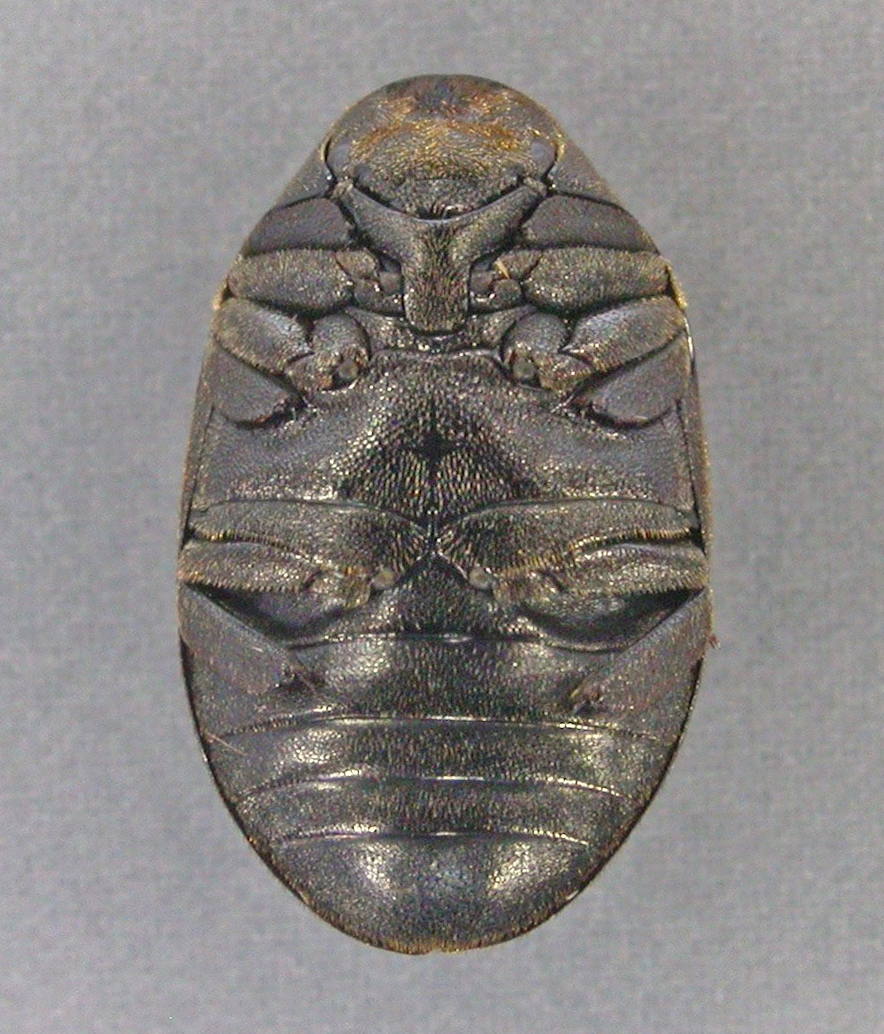 Byrrhus pilula, North Wales, May 2008